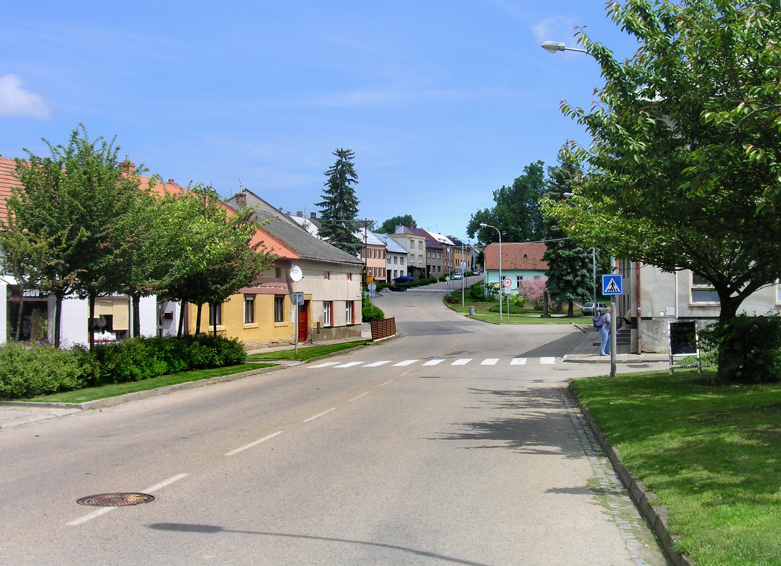 Nádražní street in Morkovice-Slížany, Czech Republic